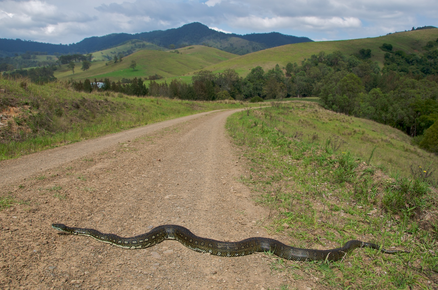 Diamond python (Morelia spilota spilota) slowly crosses the road in the Upper Paterson Valley, New South Wales